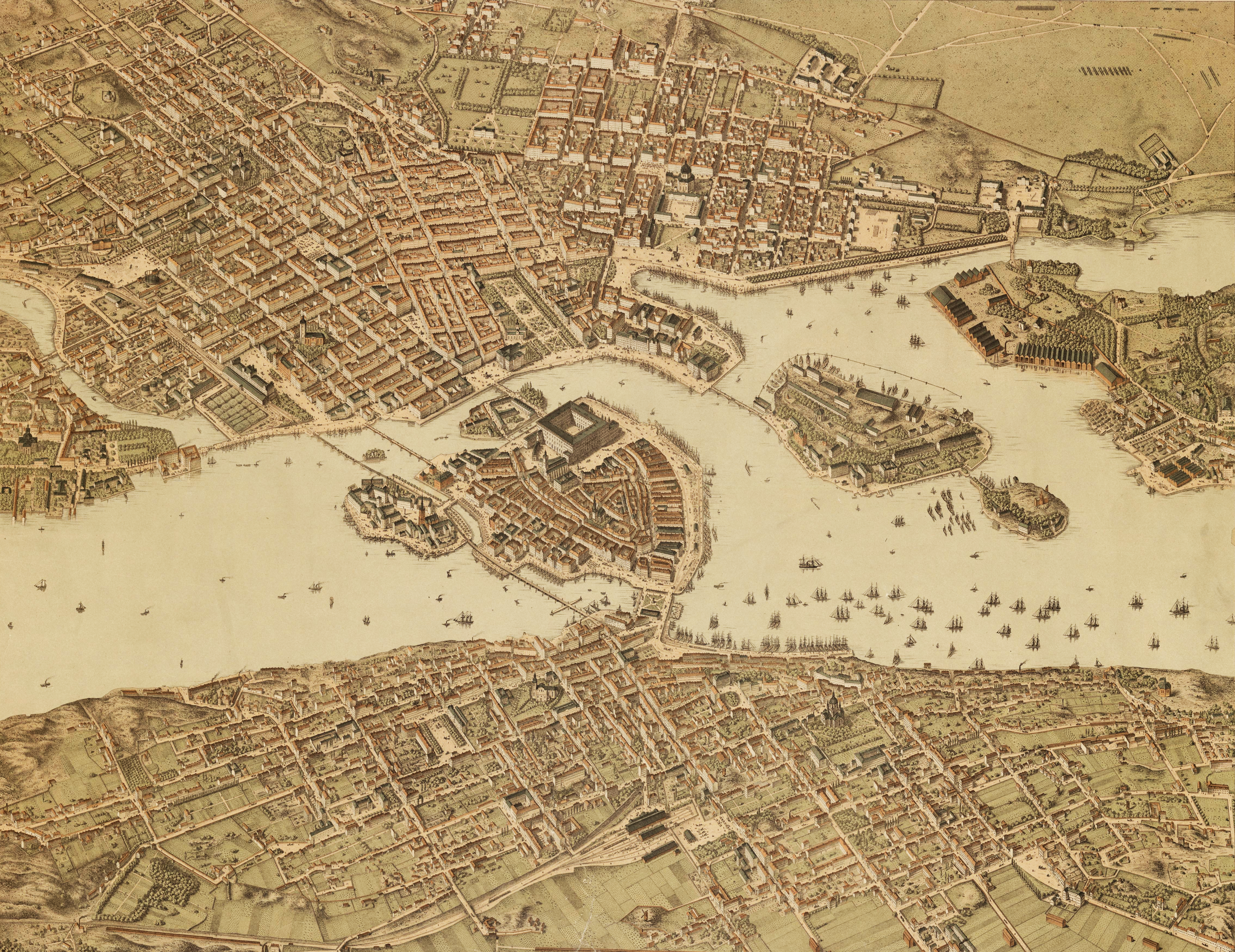 Heinrich Neuhaus (1833–1887) was a German-born map maker and lithographer who worked in Sweden for many years. His largest and best-known work is this panoramic map of Stockholm, which he created in the 1870s using an oblique image in isometric perspective. The buildings on the map are depicted with remarkable accuracy. Neuhaus is reported to have said that in order to produce the map, he walked through every neighborhood of the city and sketched the exterior of its buildings and other structures. The map captures the rapid growth of Stockholm that was characteristic of major European cities in the second half of the 19th century. Neuhaus made maps in a similarly three-dimensional style of the Stockholm districts of Norrmalm, Södermalm, and Östermalm. Cities and towns; Panoramic views